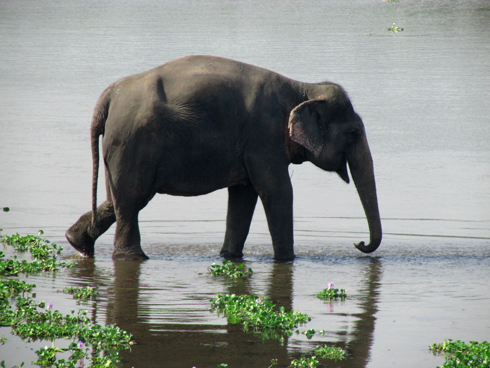 Wile Asian Elephant